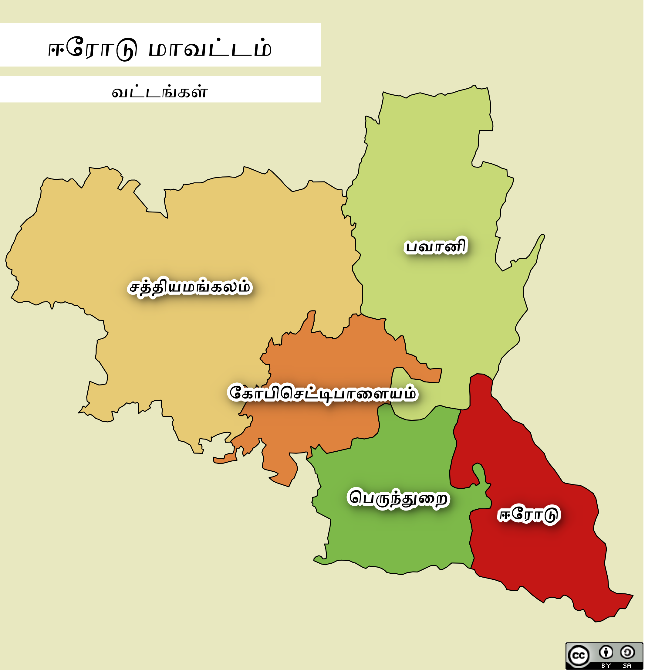 A map of the district Erode, TN, India, showing its 5 Taluks in Tamil. Created with QGIS 2.0.